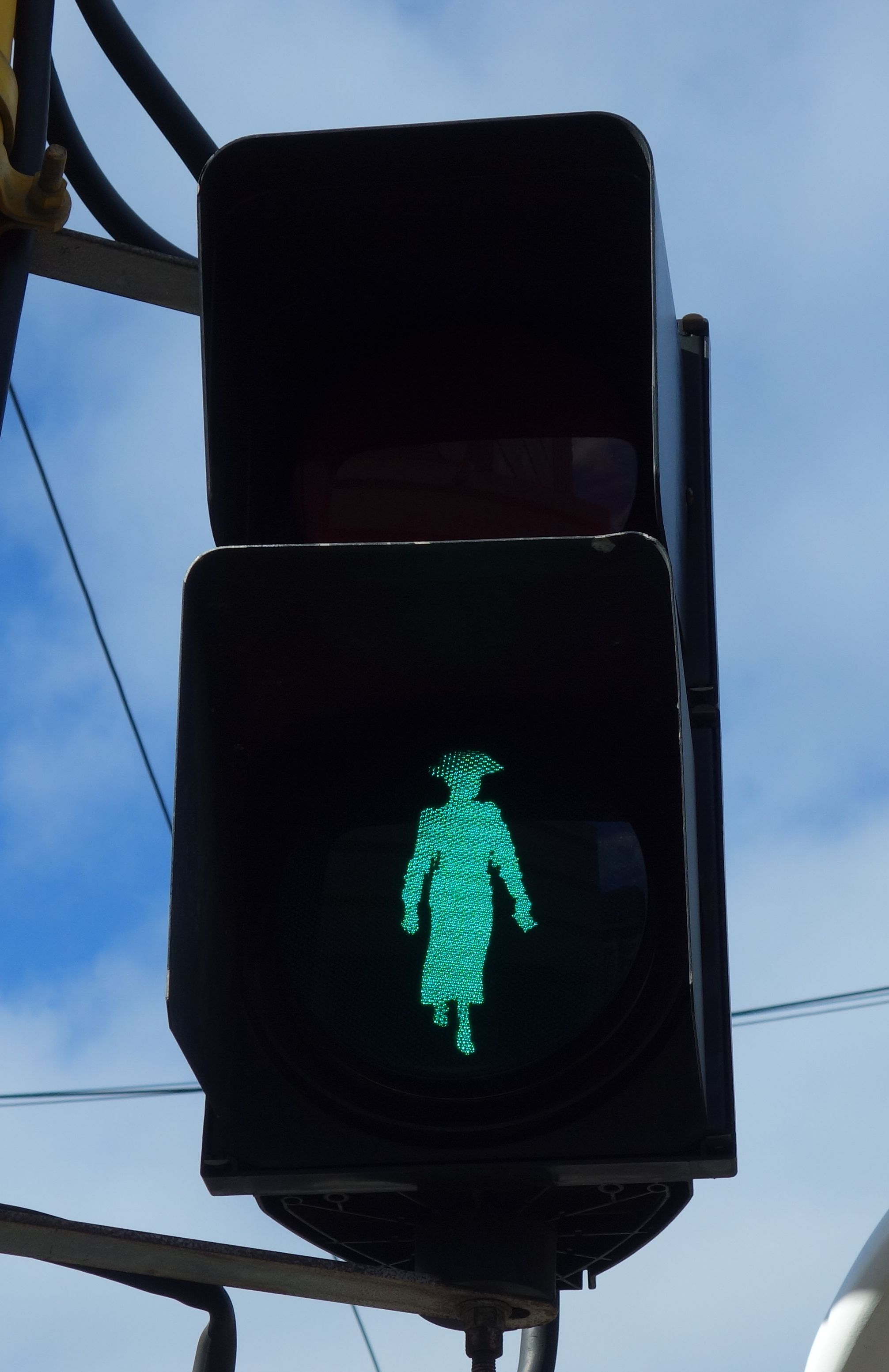 This file has been extracted from another file: Kate Sheppard signals 205.jpg